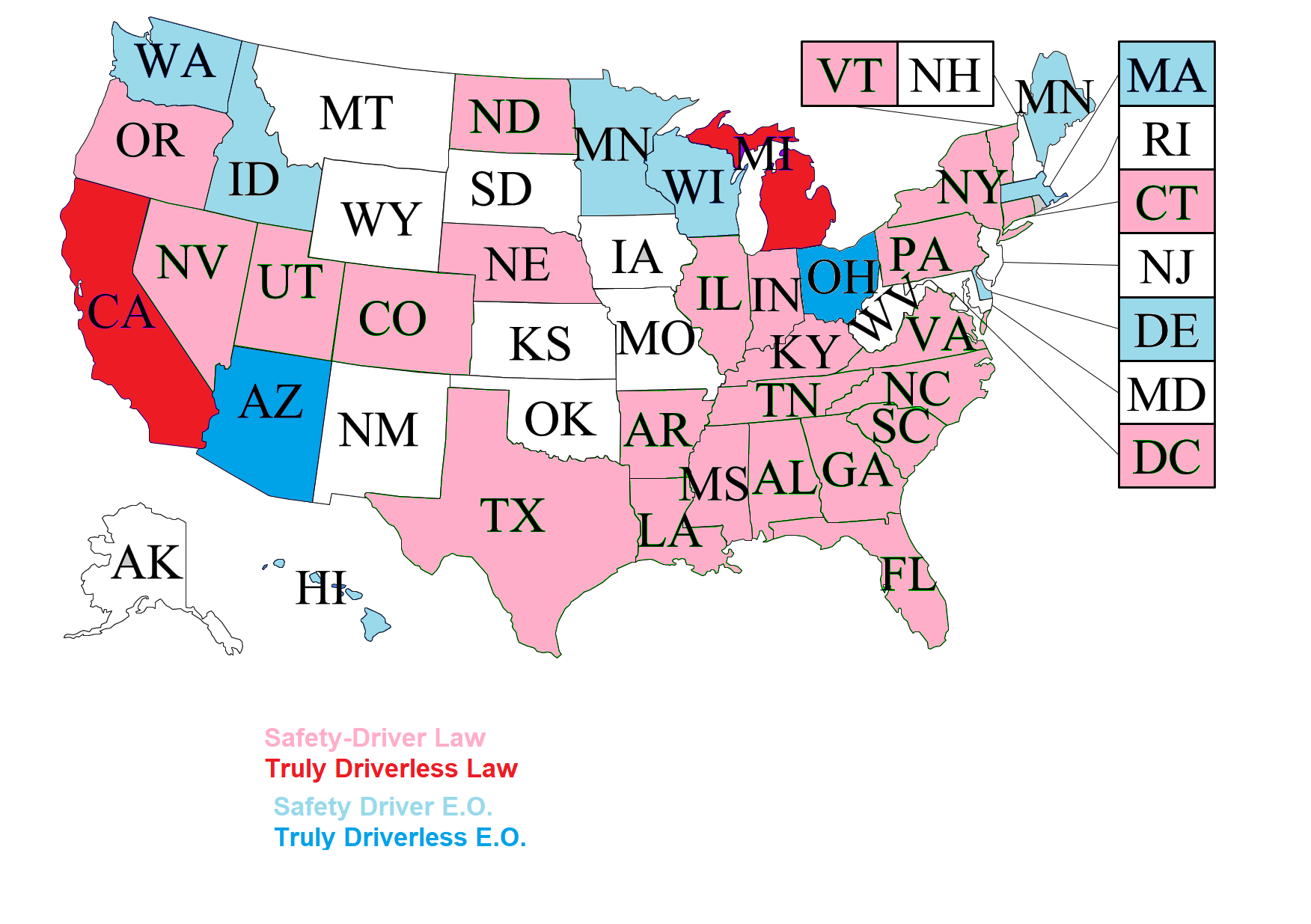 Map showing in which U.S. states autonomous vehicles have been made legal, either with or without a safety driver, and either by legislation or executive order.